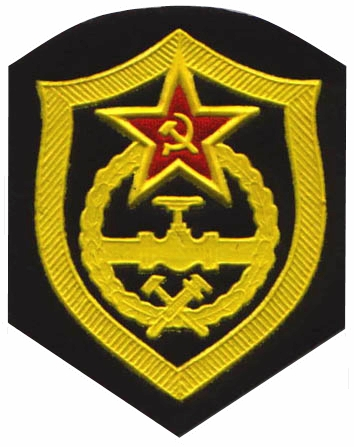 Emblem of the soviet armed forces 1960 to 1991, Soviet Army (military branches, service branches or armed services), sleeve badge (appliquéd) right hand upper arm (dress uniform/ parade uniform) to be used for the ranks OR1 to 8, and WO1 to 2, here: – “Pipeline units”, design 1985.